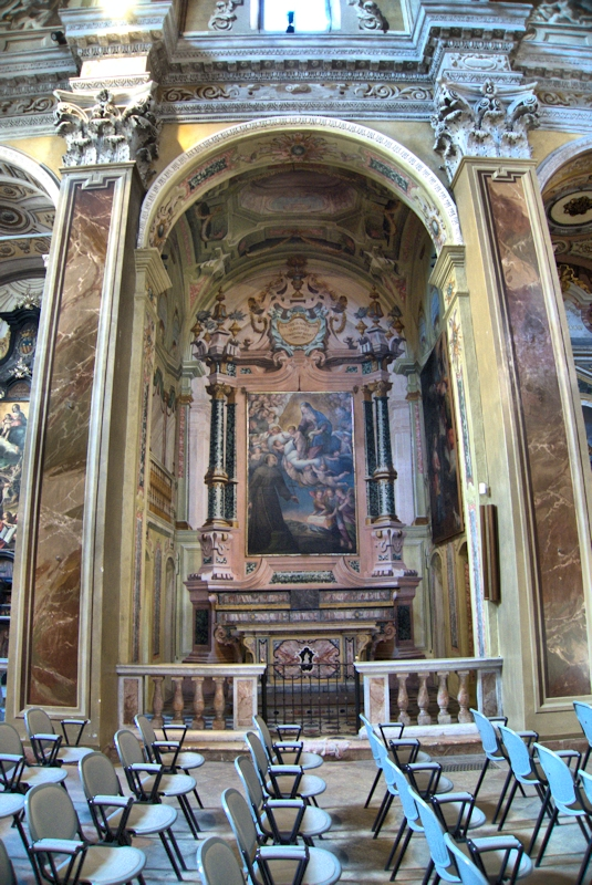 Chapel of San Diego